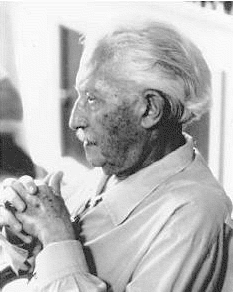 Erik Erikson